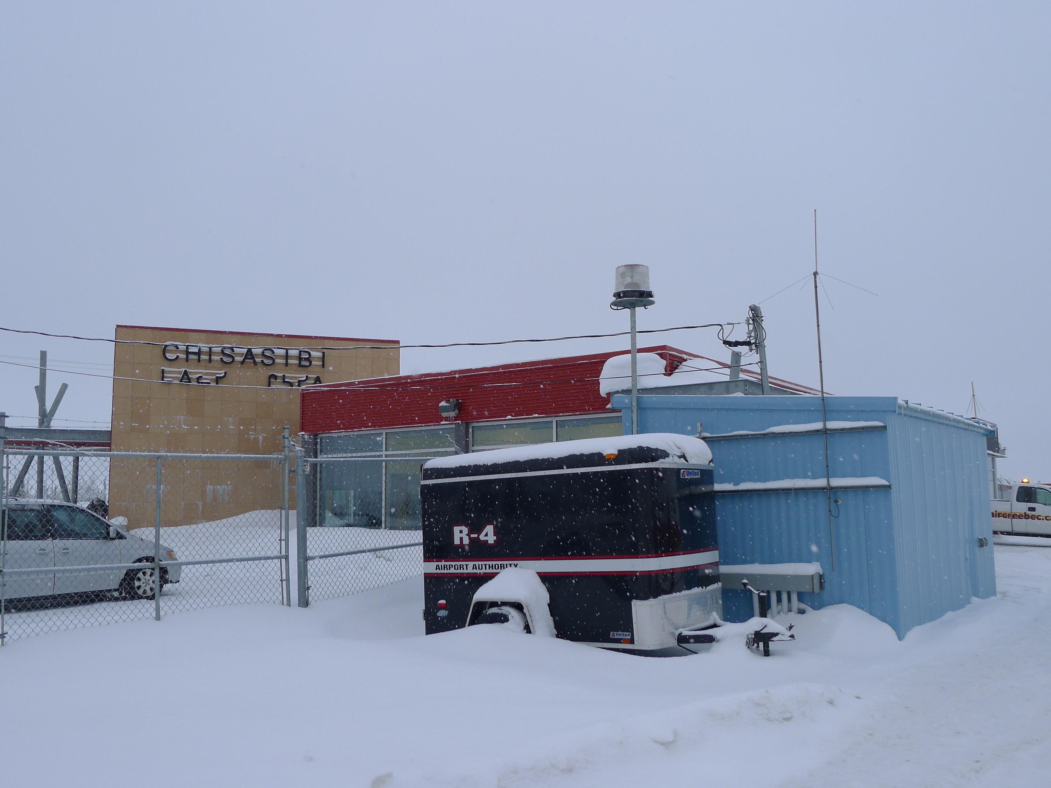 A technically awful view of the Chisasibi airport.